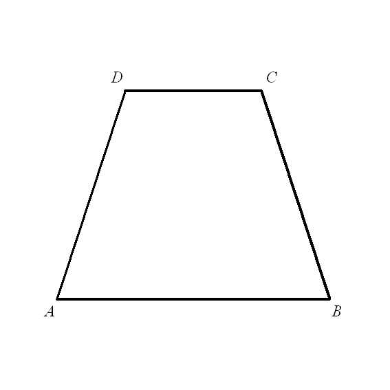 Symmetric trapezoid